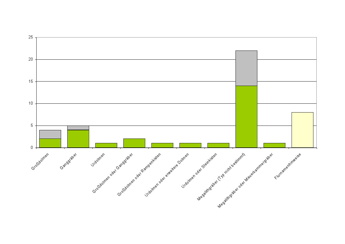 Types of megalithic tombs of the megalithic Middle Elbe-Saale Group